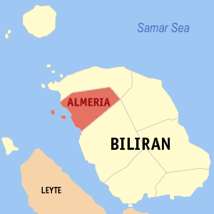 Map of Biliran showing the location of Almeria